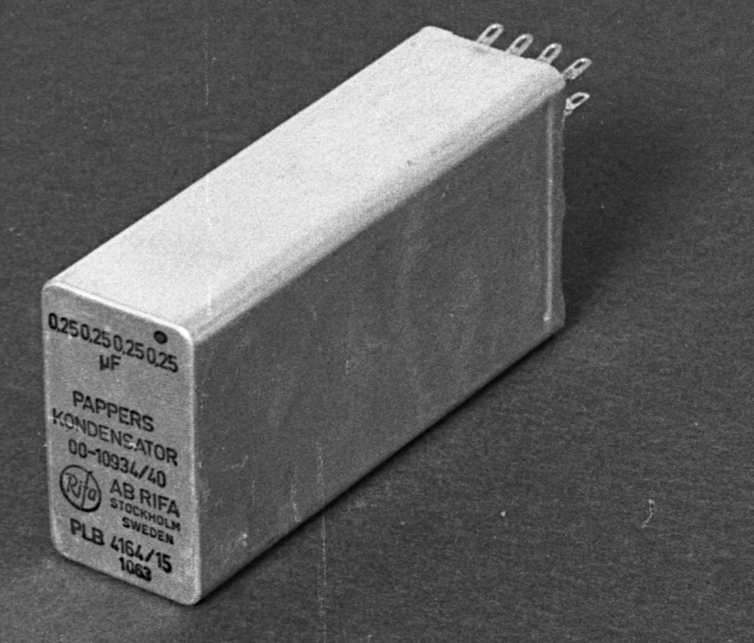 Paper Capacitor produced by RIFA AB, Sweden.